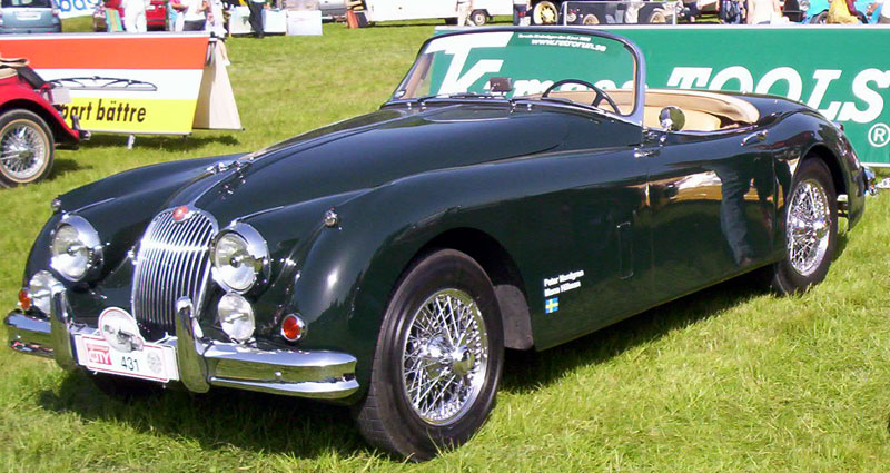 Jaguar XK150 Roadster 1959